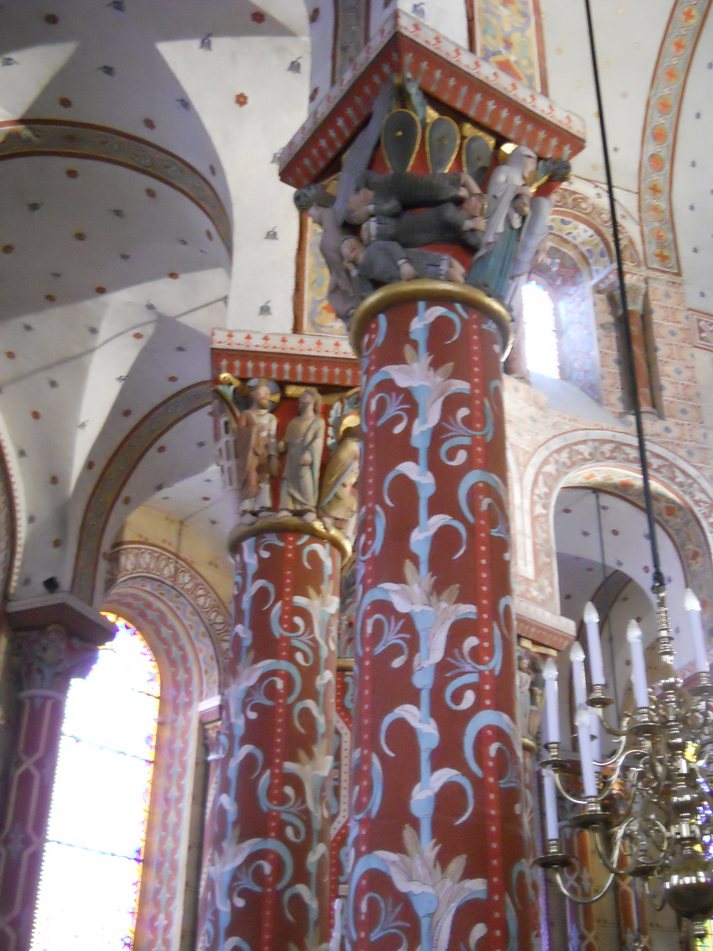 Capital of Passion, Church of St. Austromoine, Issoire, Puy-de-Dôme, France